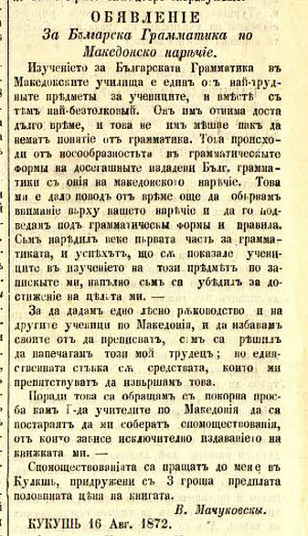 Venijamin Macukovski Letter"Learning of Bulgarian grammar schools in Macedonia is one of the most difficult subjects for students, a kind and najbestolkoven. It takes quite a while, eventually ABOUT re no idea of grammar. It is because of differences in grammatical forms of existing issued a Bulgarian grammars and those of the Macedonian dialect."— Venijamin Macukovski